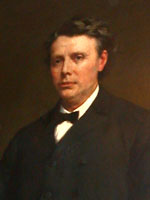 William Gaston (1820-1894) Portrait painted by Frederic Porter Vinton.